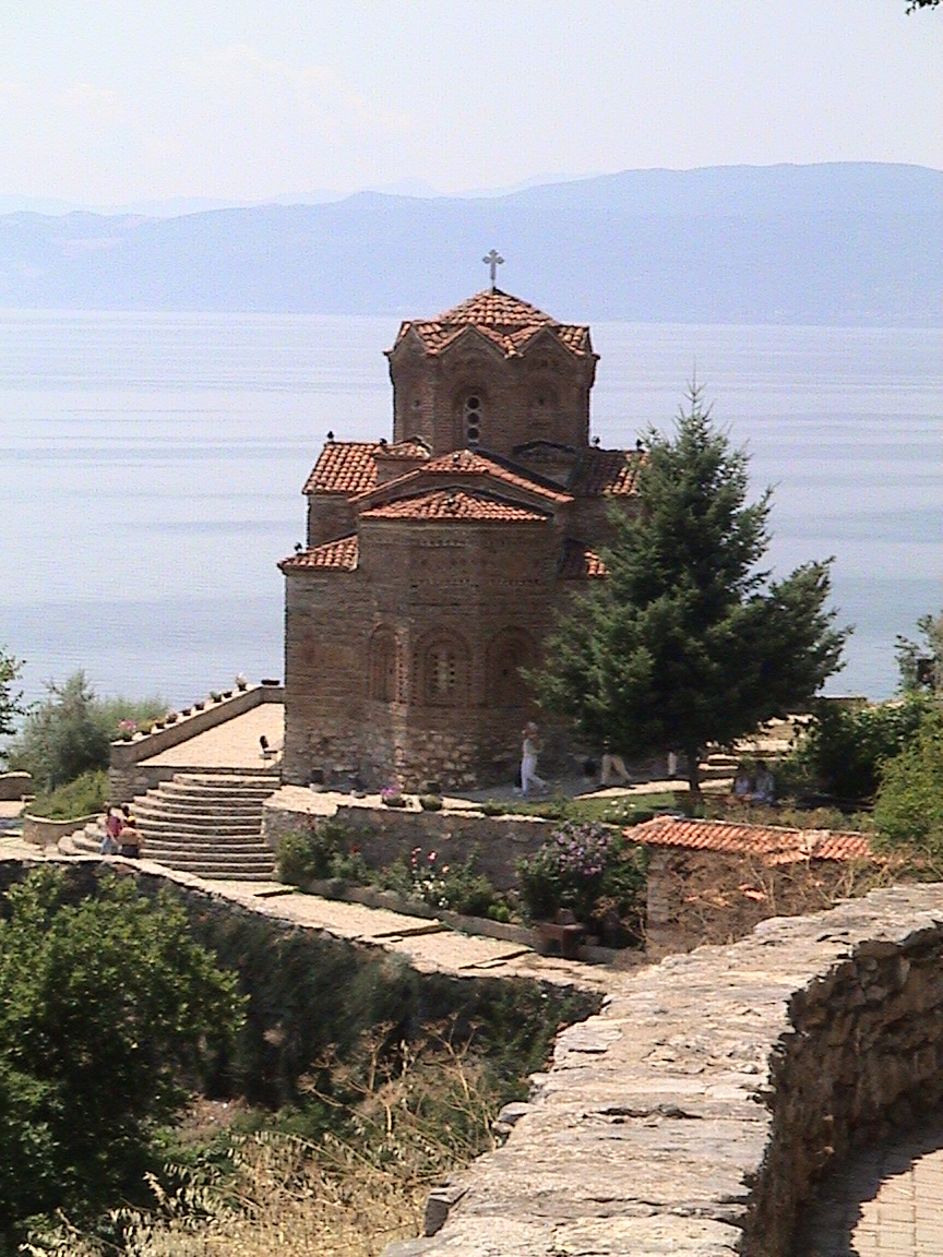 Church of St. John of Kanevo in Ohrid, Republic of Macedonia